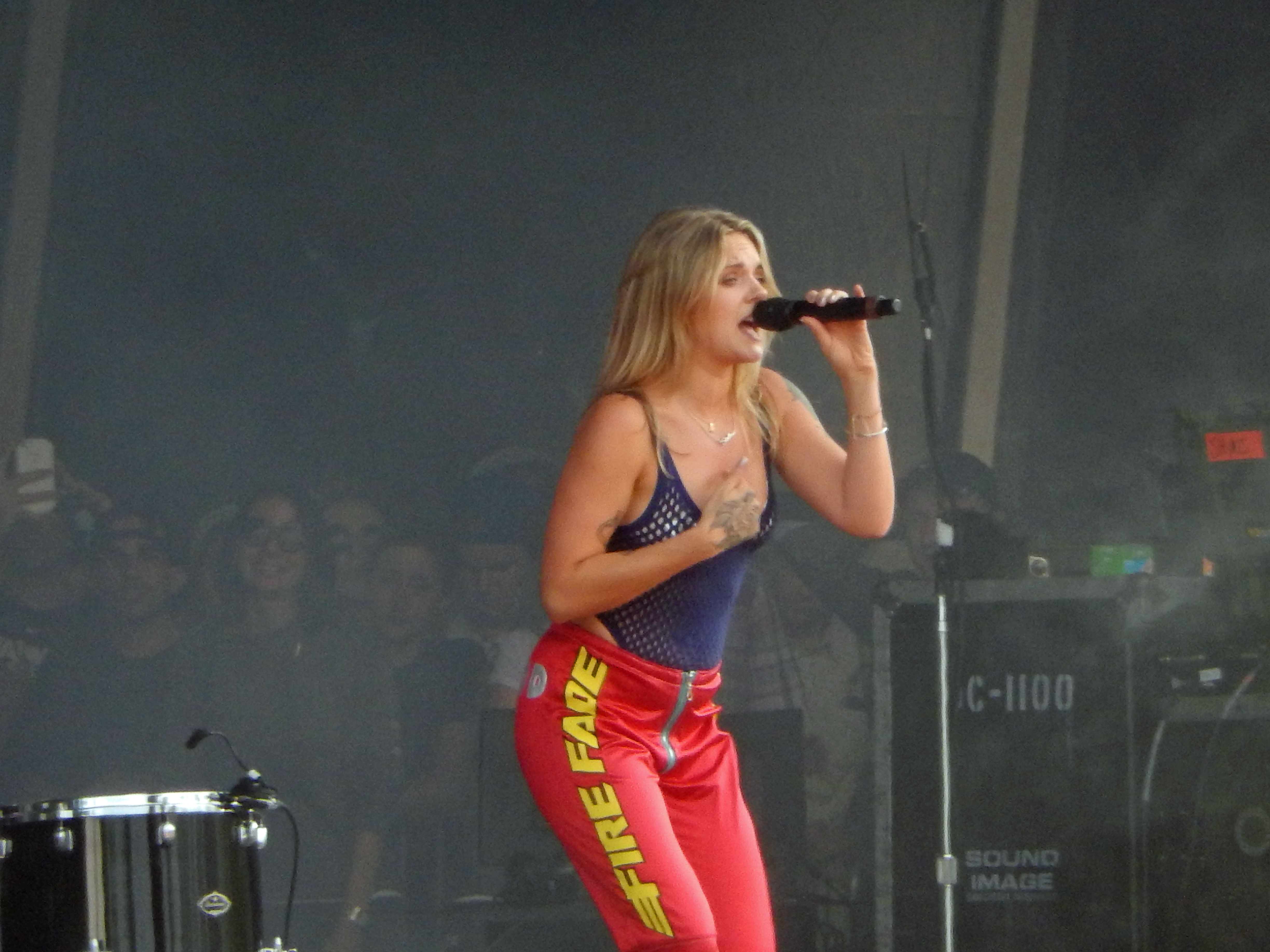 Tove Lo